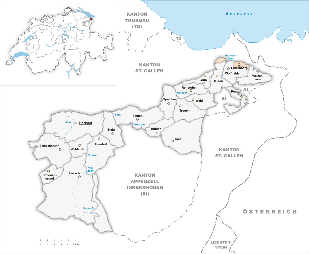 Municipality of Lutzenberg